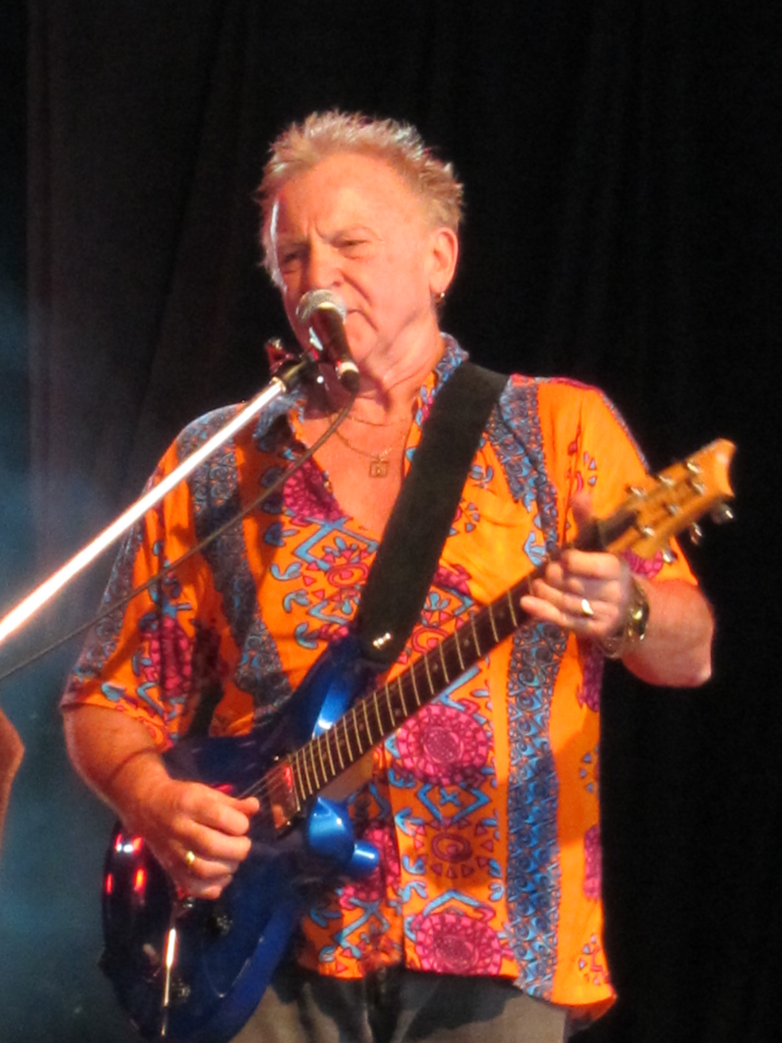 Playing with Jack Thompson and The Original Sinners